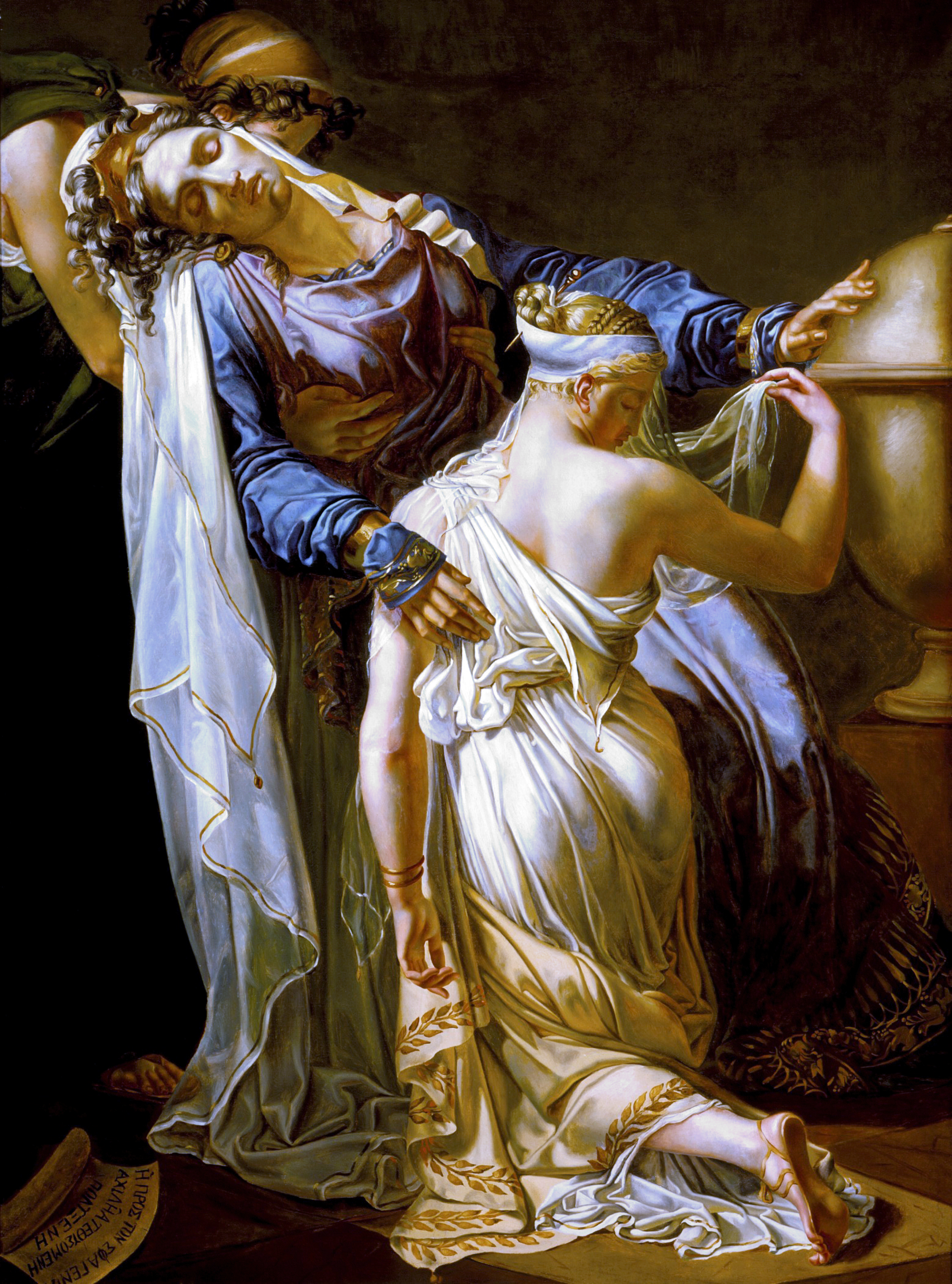 France, after 1814 Paintings Oil on canvas Purchased with funds provided by Sam Katz by exchange (73.3) European Painting Currently on public view: Ahmanson Building, floor 3